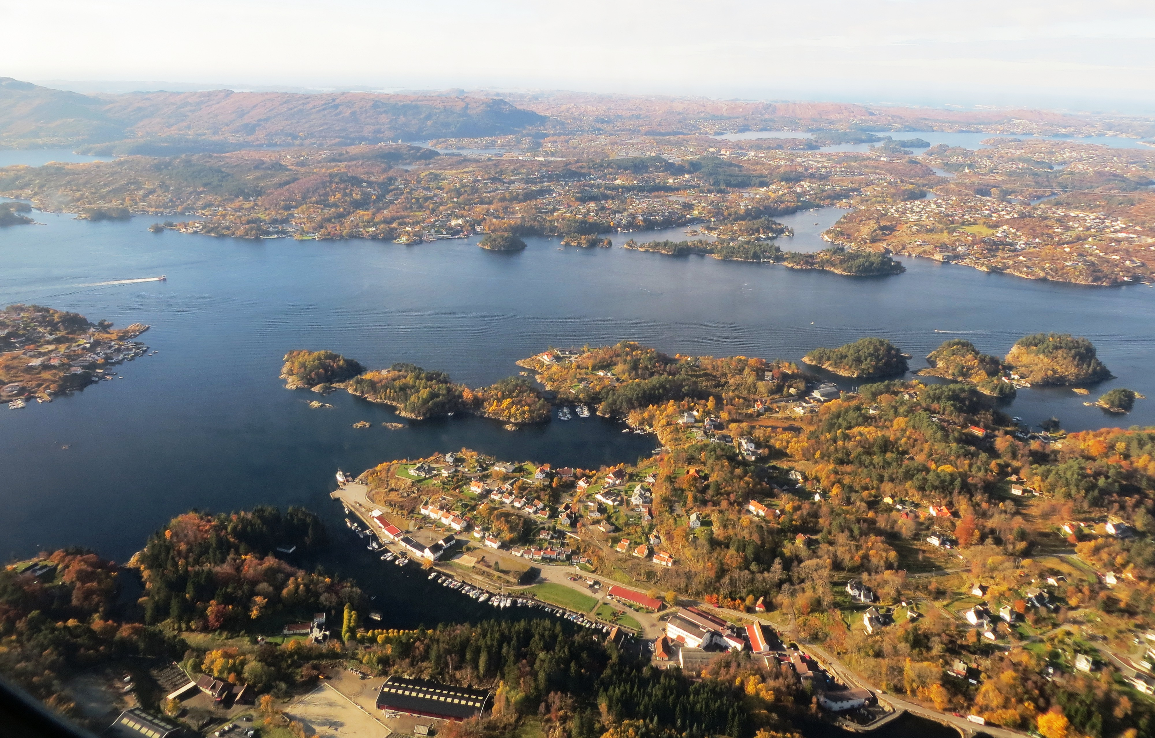 Kongshavn western part of Bergen, Norway. Island of Sotra in the background.